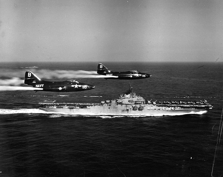 Two U.S. Navy Grumman F9F-2 Panther (left: BuNo 123583) from Fighter Squadron 191 (VF-191) "Satan's Kittens" dump fuel as they fly past the aircraft carrier USS Princeton (CV-37), during Korean War operations, circa in May 1951. VF-191 was assigned to Carrier Air Group 19 (CVG-19) aboard the Princeton for a deployment to Korea from 9 November 1950 to 29 May 1951.